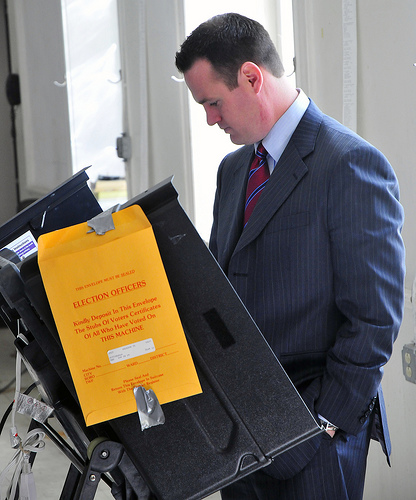 Mayor of Pittsburgh, Luke Ravenstahl voting in the 2008 Pennsylvania primary election